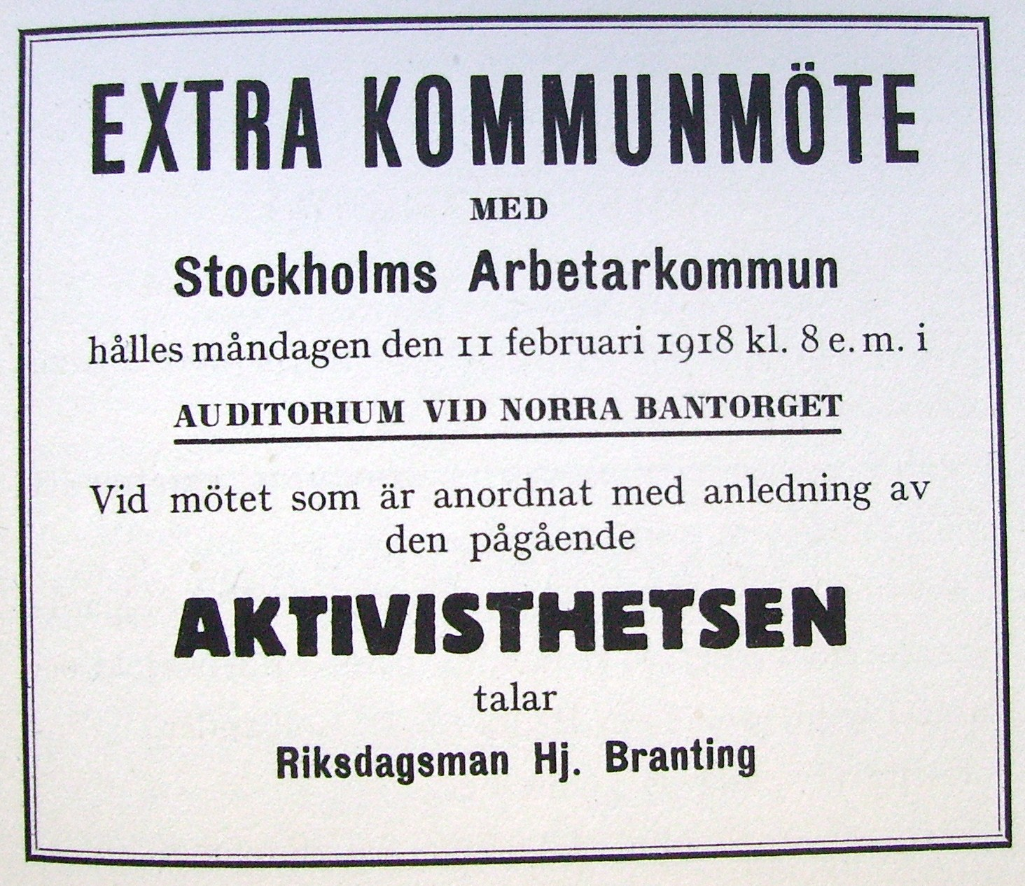 Picture of poster against activism in the question of Finnish independence